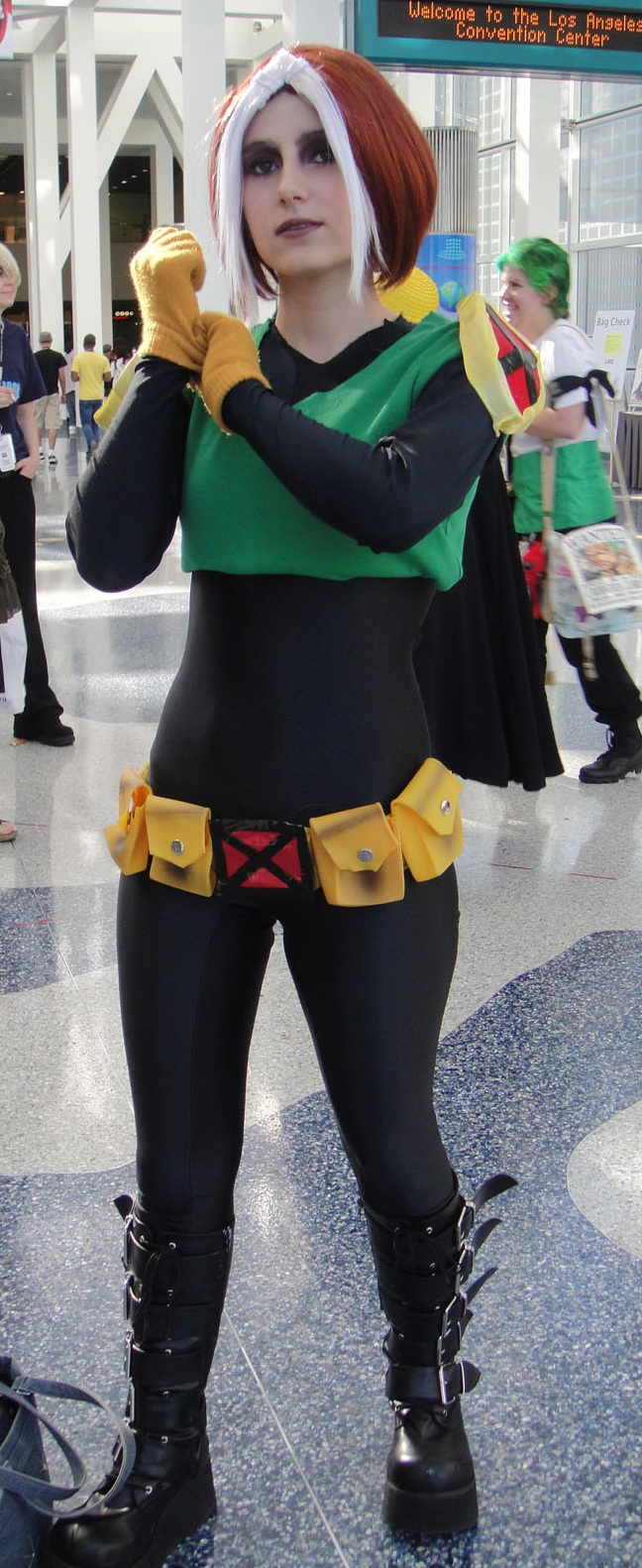 Cosplay of Rogue, X-Men Evolution character, Anime Expo 2011